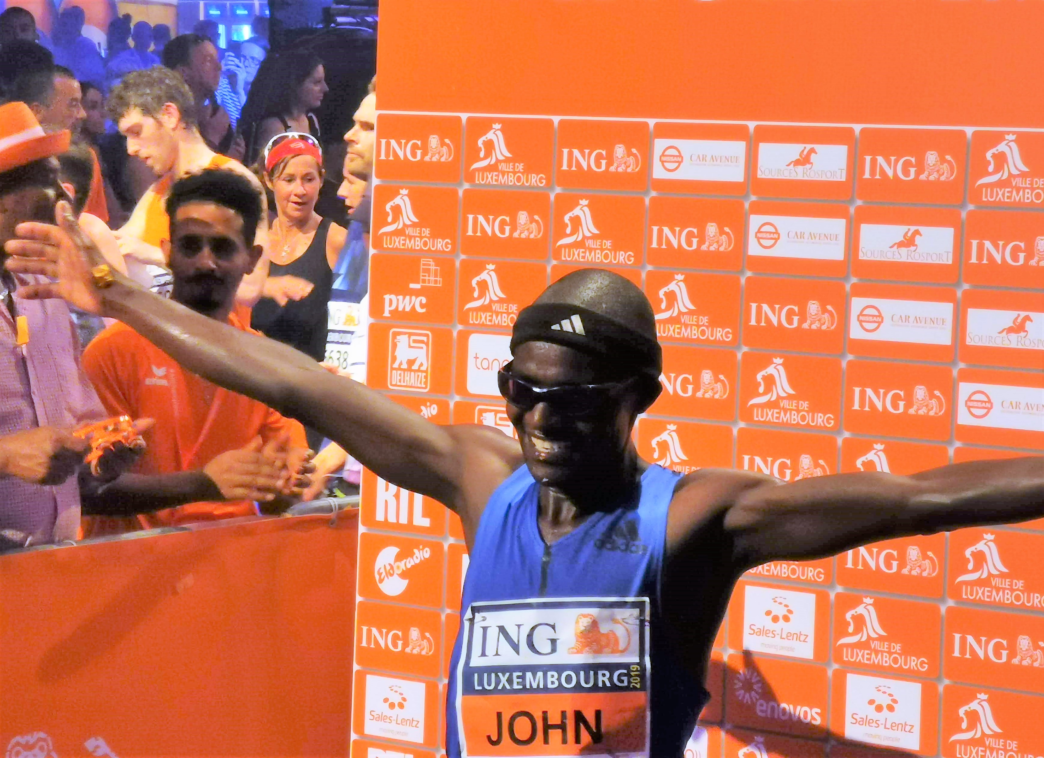 John Kipkorir Komen, winner of the 2019 Night Marathon in Luxembourg-City (02:16:05).